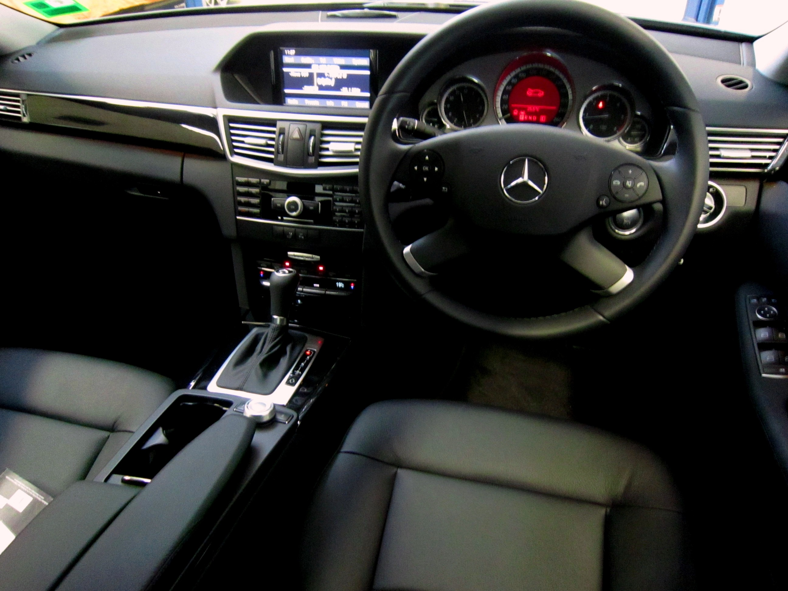 2010 Mercedes-Benz E 250 CDI BlueEFFICIENCY (W 212) Avantgarde sedan. Photographed in New South Wales, Australia. Vehicle registration enquiry results Jurisdiction Victoria Registration YBK205 Chassis code WDD2120032A339849 Engine code 65192430377006 Compliance date 2010-11 Year of manufacture 2010